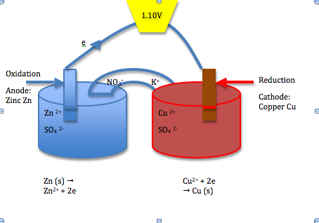 Schematic Zn/Cu Cell